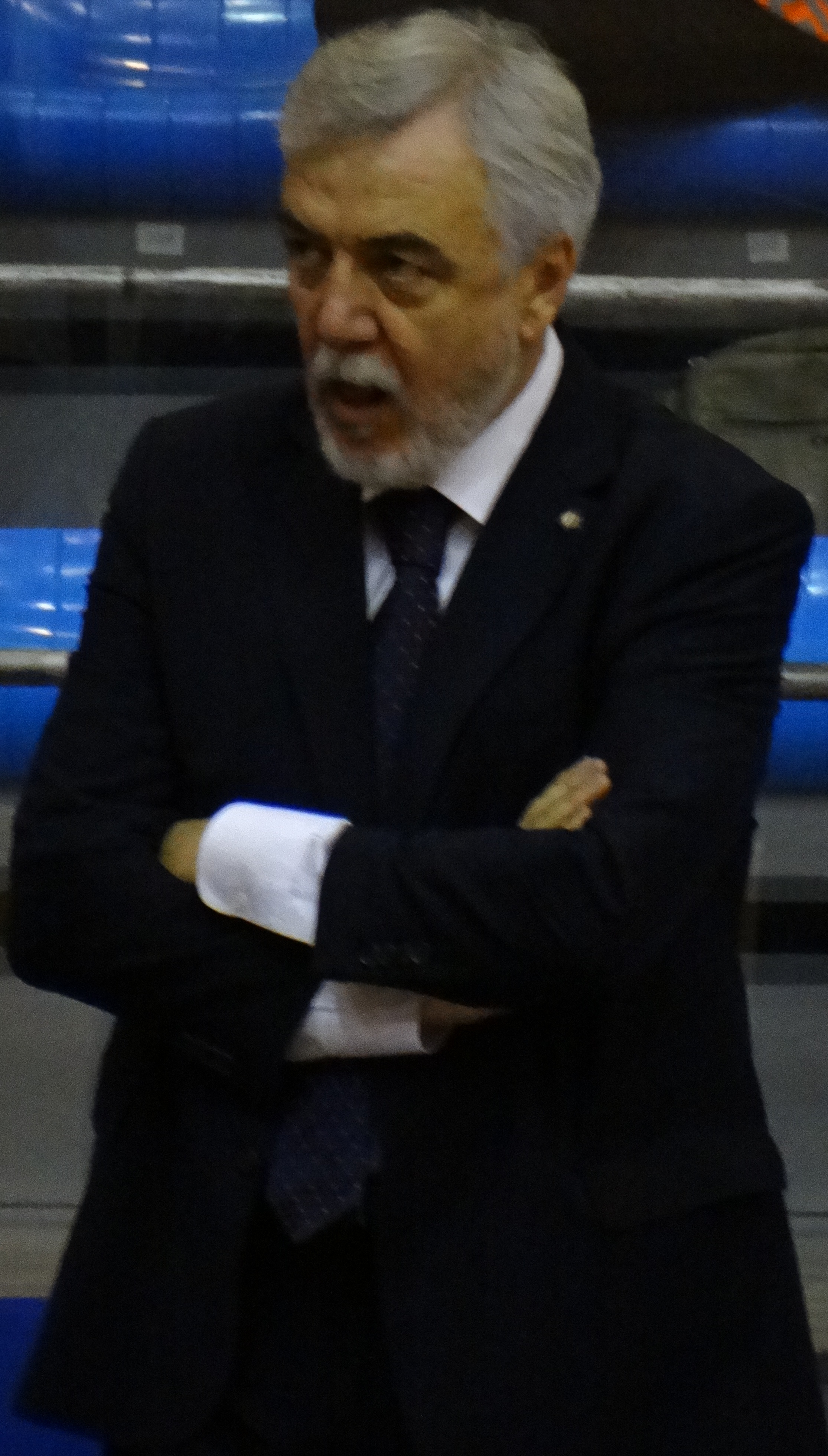 Zafer Kalaycıoğlu Fenerbahçe Women's Basketball vs Yakın Doğu Üniversitesi (women's basketball) TWBL 20180521